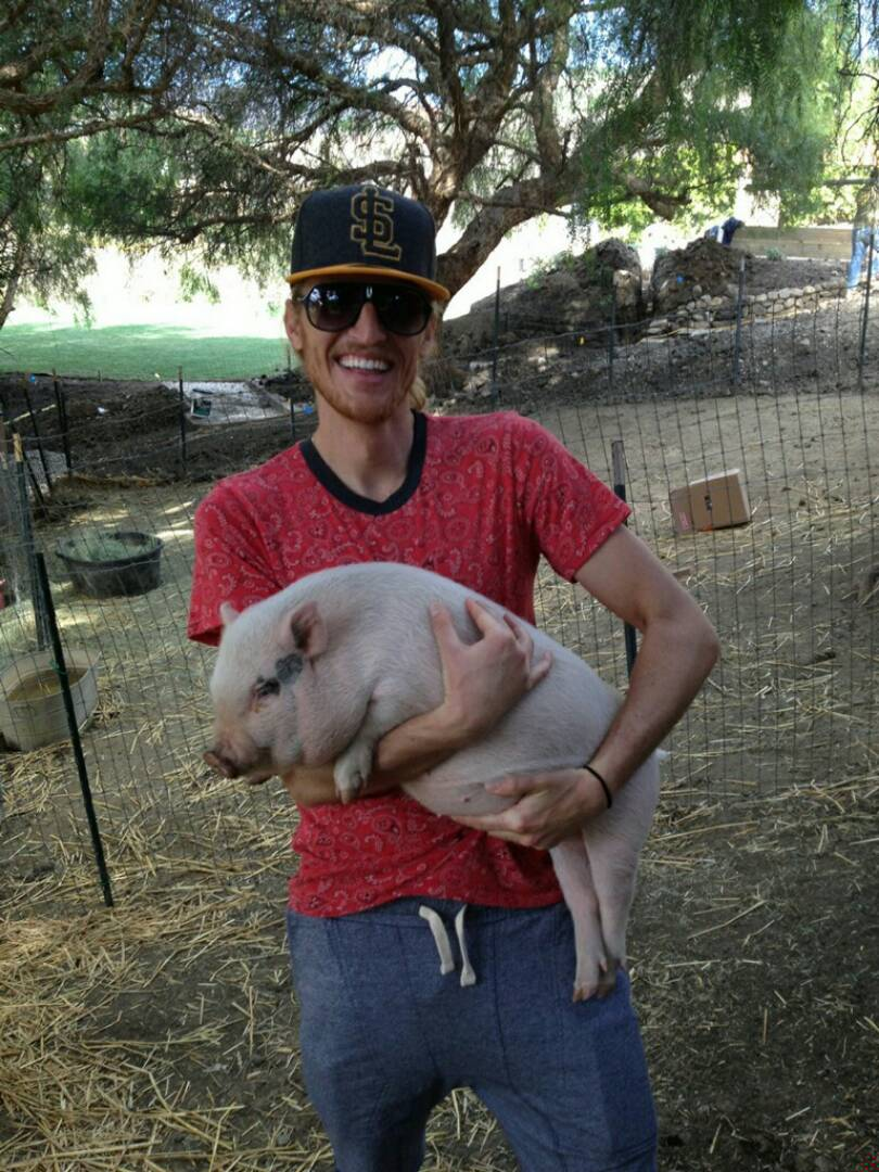 Tyson Apostol visits a petting zoo.